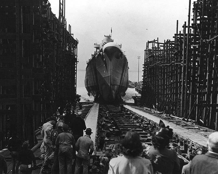 Launch of the U.S. Navy light cruiser USS Birmingham (CL-62) at the Newport News Shipbuilding and Dry Dock Company shipyard, Newport News, Virginia (USA), on 20 March 1942.